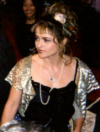 Helena Bonham Carter at the 2005 Toronto International Film Festival promoting Curse of the Wererabbit.